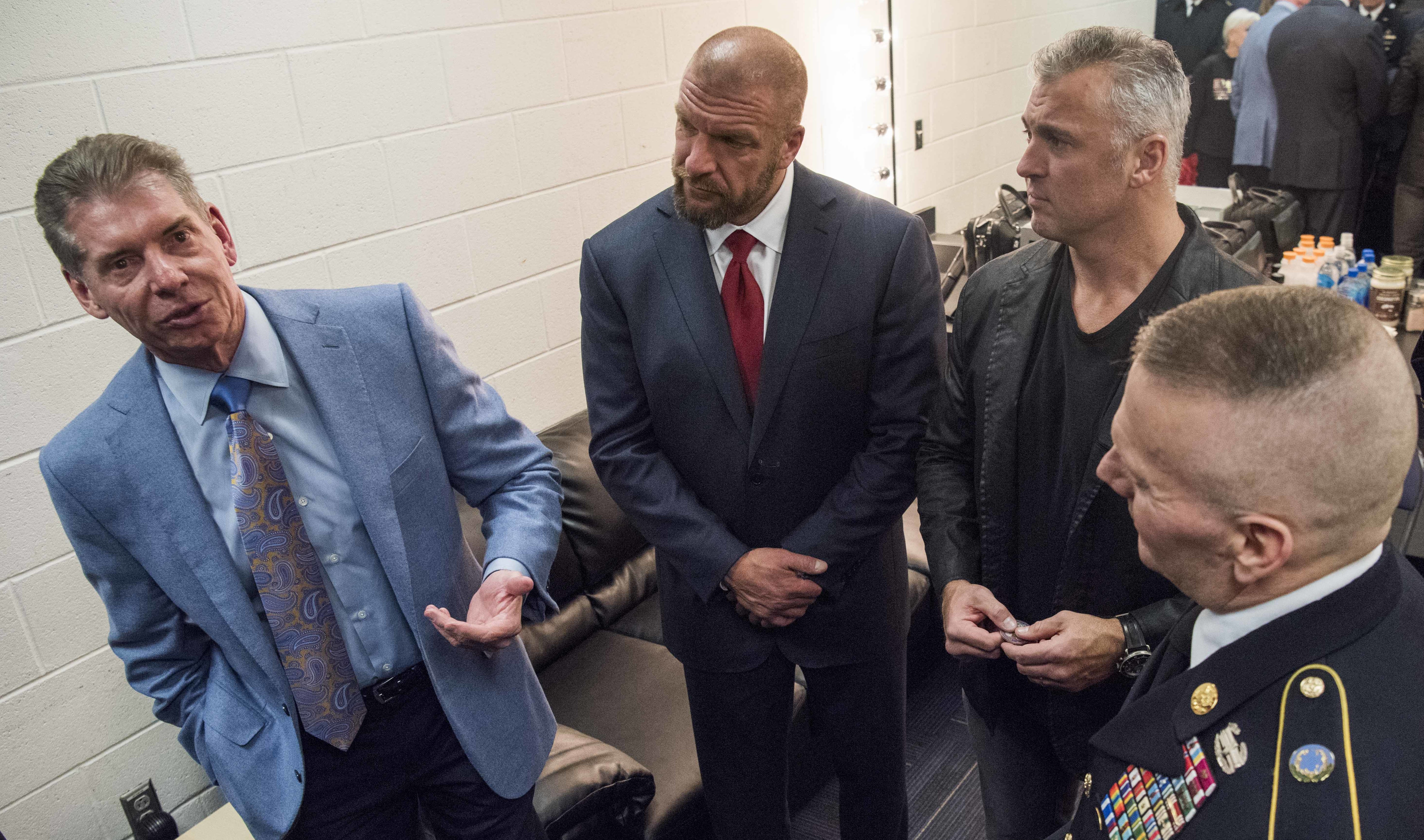 WWE CEO Vince McMahon, Paul "Triple H" Levesque, and Shane McMahon speak to Army Command Sgt. Maj. John W. Troxell, Senior Enlisted Advisor to the Chairman of the Joint Chiefs of Staff, before the 14th Annual Tribute to the Troops Event at the Verizon Center in Washington, D.C., Dec. 13, 2016. WWE Tribute to the Troops is an annual event held by WWE and Armed Forces Entertainment in December during the holiday season since 2003, to honor and entertain United States Armed Forces members. WWE performers and employees travel to military camps, bases and hospitals, including the Walter Reed National Military Medical Center at Naval Support Activity Bethesda. DoD Photo by Navy Petty Officer 2nd Class Dominique A. Pineiro